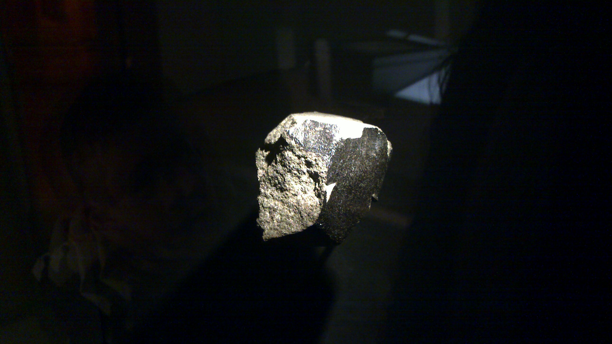 Nakhla martian meteorite at London's Natural History Museum.